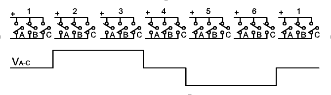 3-phase inverter circuit showing six-step switching sequence and voltage between terminals A and C -- drawn by C J Cowie using MicroGrafx Designer